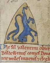 Matthew Paris recorded the death of Baldwin de Redvers, 6th Earl of Devon, in the year 1245. British Library, Royal 14 C VII f. 138